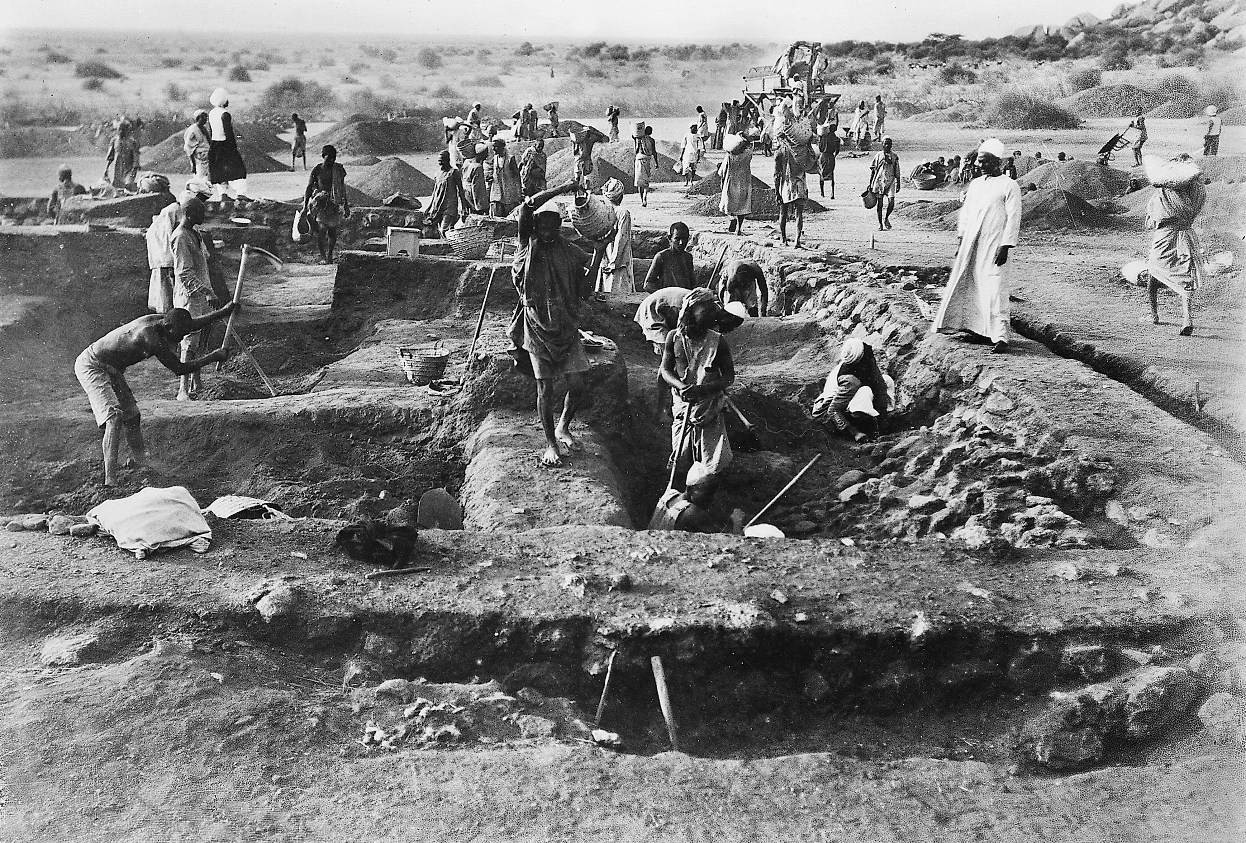 Wellcome excavations in Sudan. Eastern end of one of the ruins uncovered at Saqadi, 1913 [Jebel Moya] Wellcome Images Keywords: Sudan